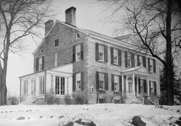 Frey House, State Route 5 (Grand Street), Palatine Bridge (Montgomery County, New York) cropped